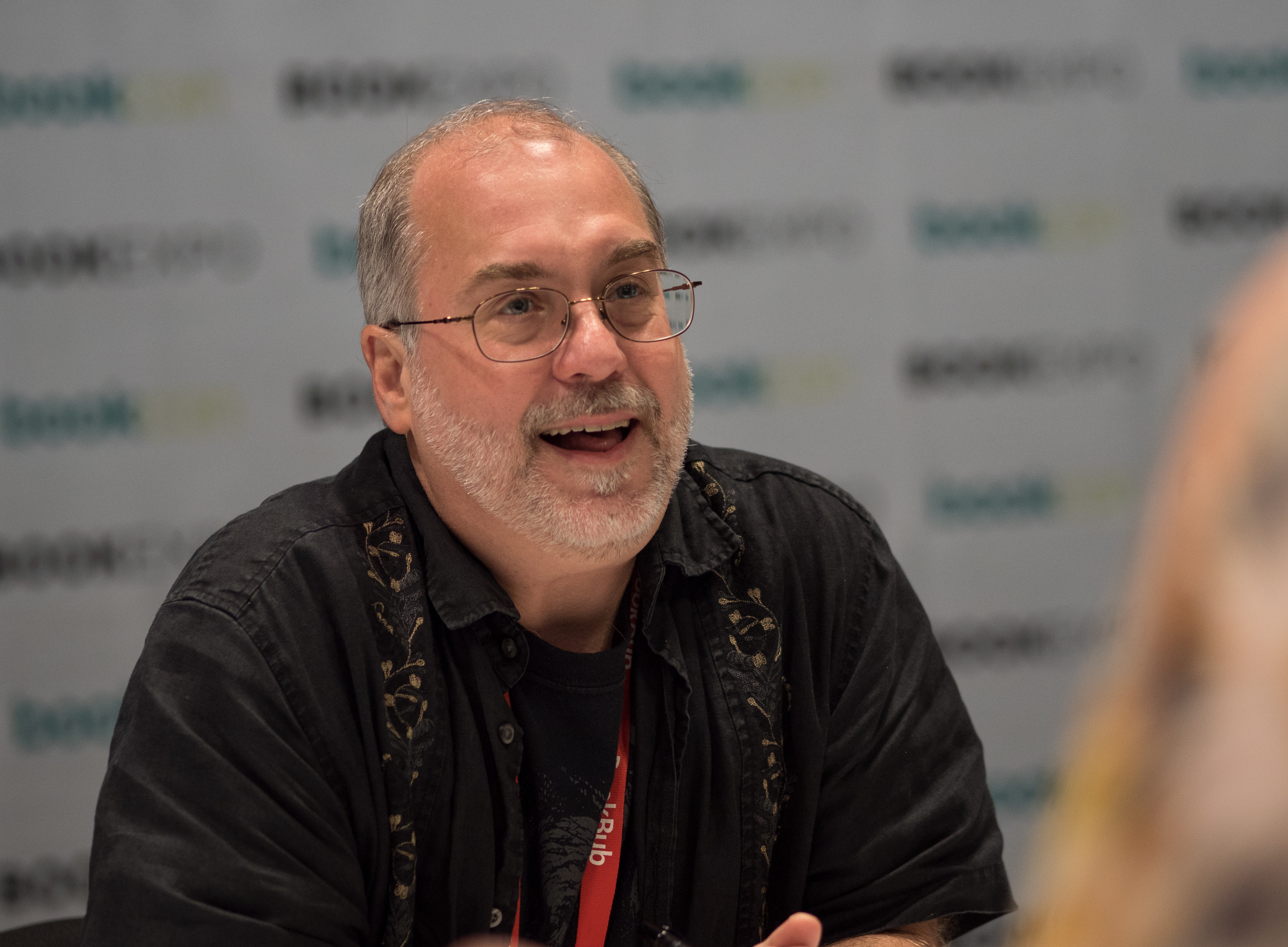 John Everson BookExpo America 2018 at the Javits Convention Center in New York City.